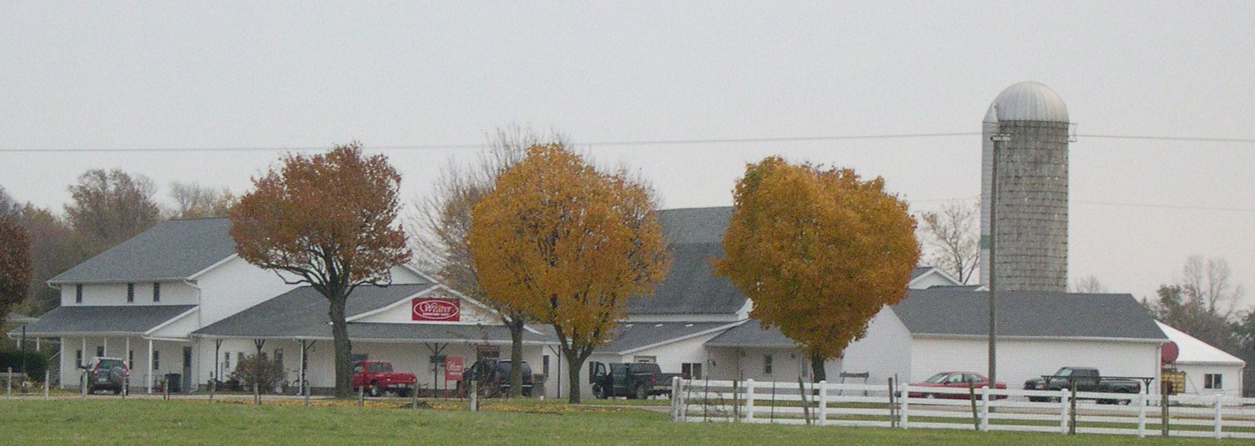 Weaver Furniture Sales located on the Weaver homestead